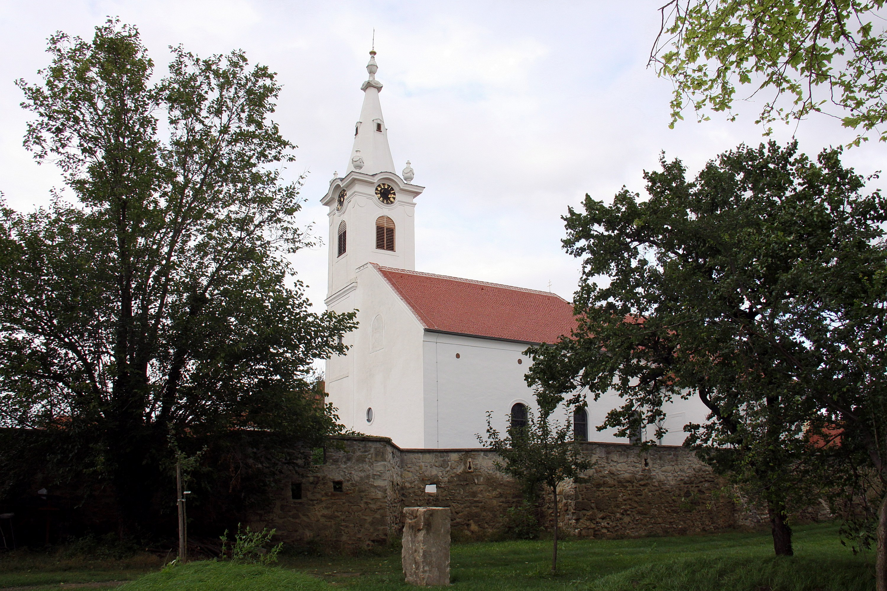 Parish church Feast of the Cross - Wulkaprodersdorf. Object location47° 47′ 35.98″ N, 16° 29′ 40.78″ E